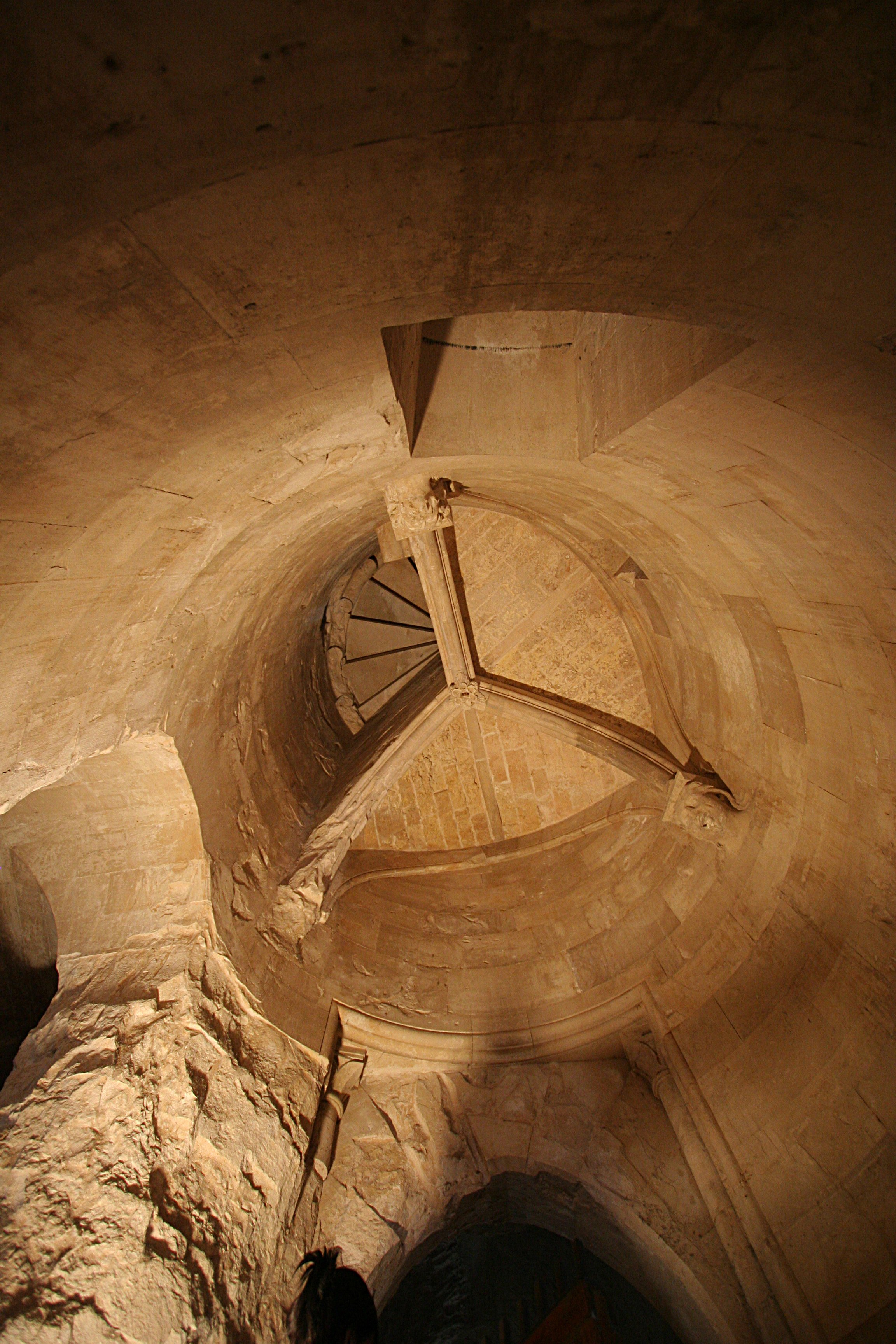 Staircase in a tower